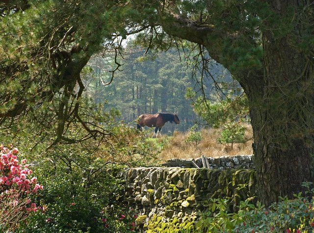 Clydesdale horse, Walkershill Clydesdales are a native breed of heavy horse originating in Lanarkshire. In the days before mechanization they were literally the workhorse of Scottish agriculture, but during the period between the wars as the tractor became more common their numbers declined, reaching a low in the 1970's, when there seemed to be a real risk of the breed dying out. Happily since then, thanks to a handful of enthusiastic breeders, its numbers have increased again.